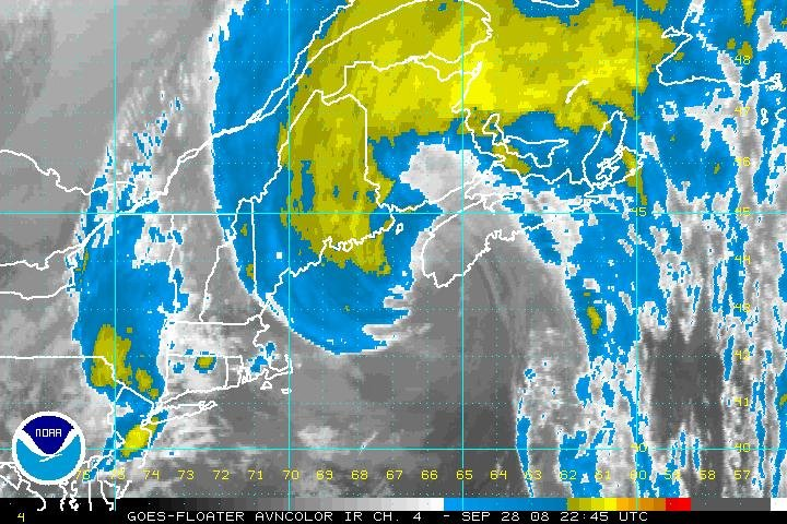 Hurricane Kyle upon landfall on September 28 2008`